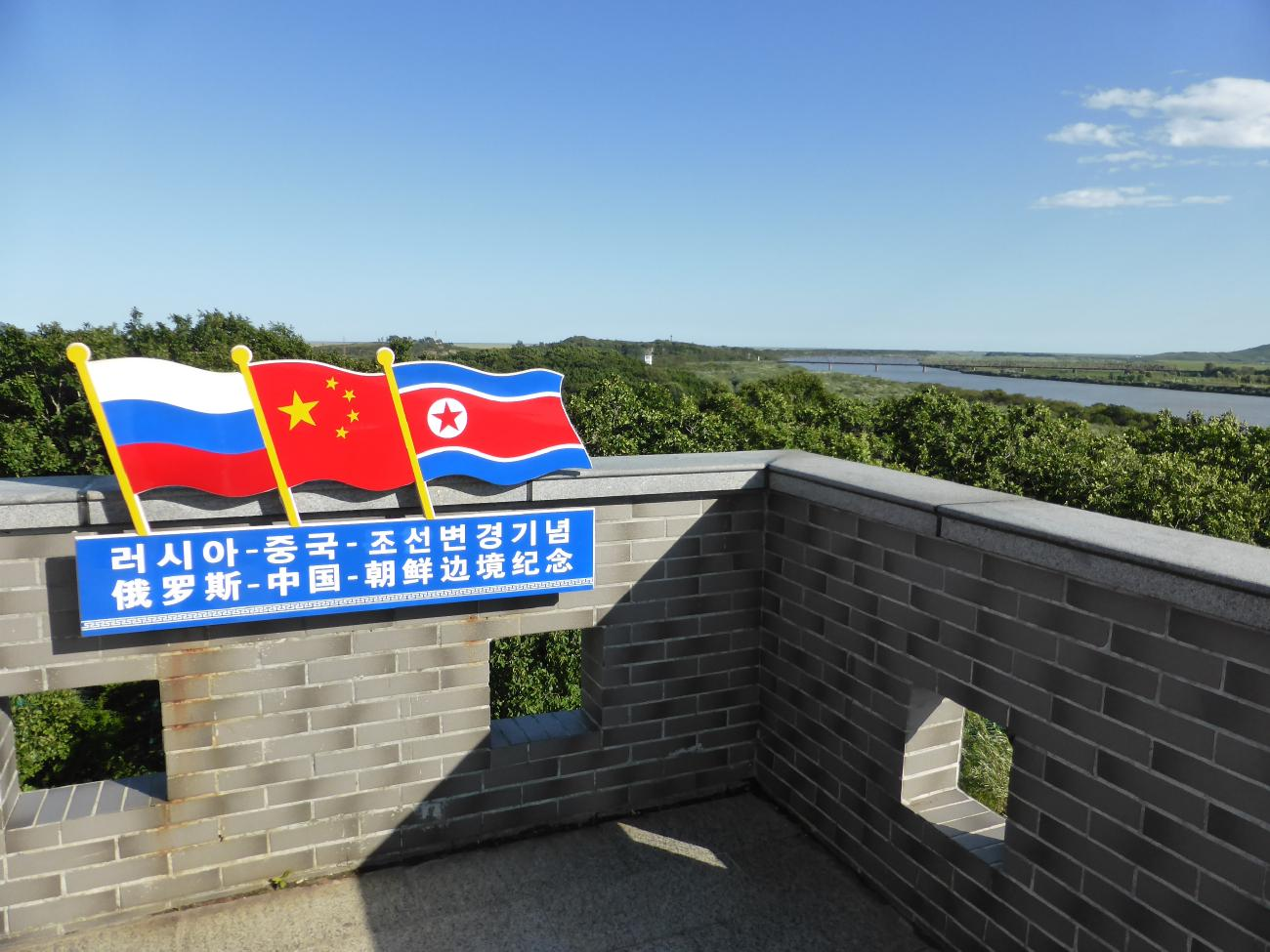 The Trilateral Frontier Memorial at the Observation Deck in the Fangchuan National Scenic Area